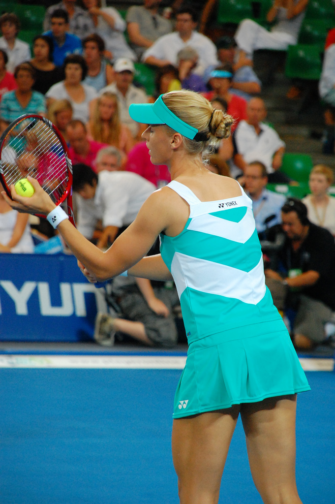 Elena Dementieva ready to serve at the 2010 Hyundai Hopman Cup XXII in Perth, Western Australia